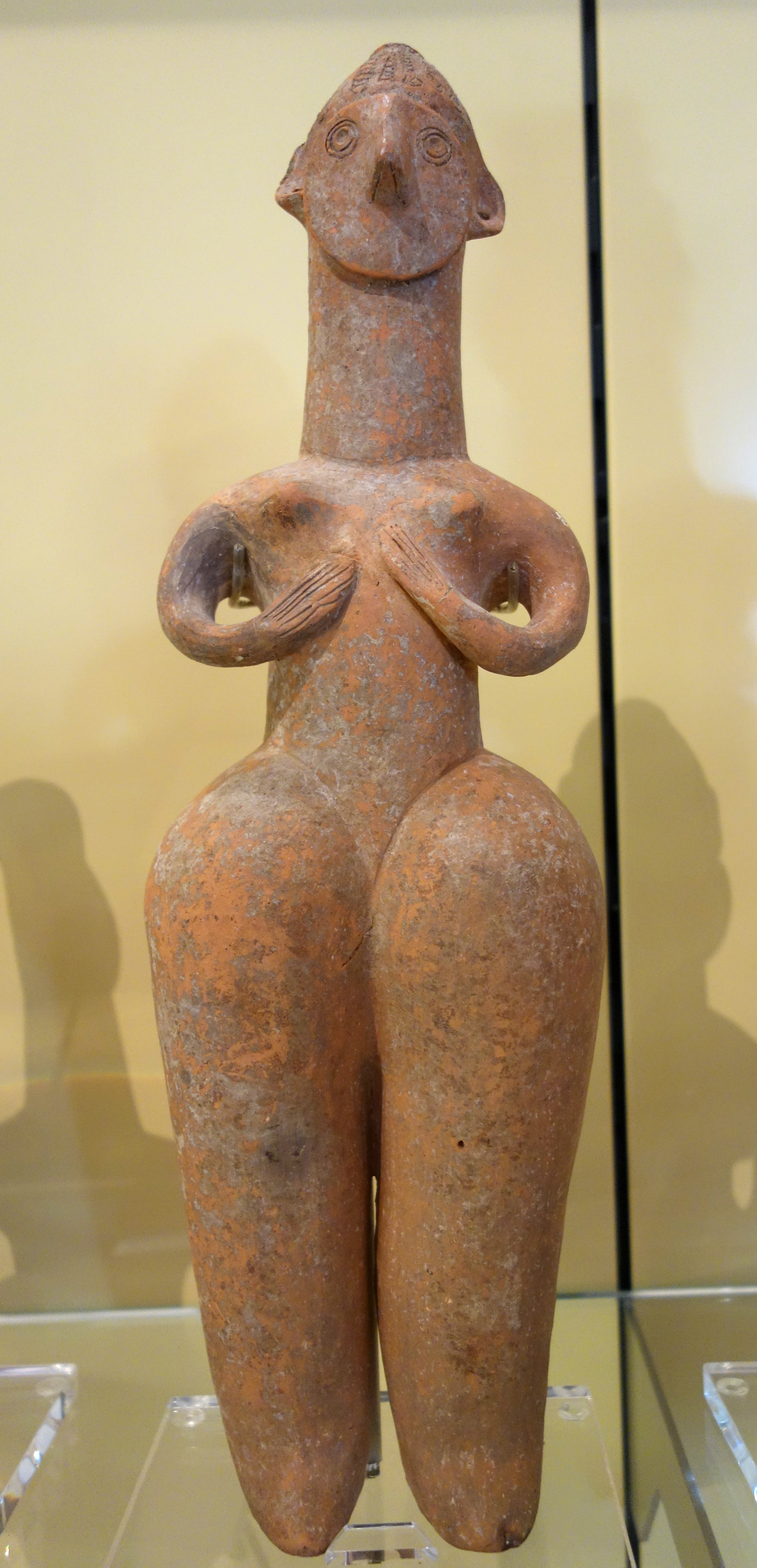 Exhibit in the Royal Ontario Museum, Toronto, Ontario, Canada. This work is old enough so that it is in the public domain.